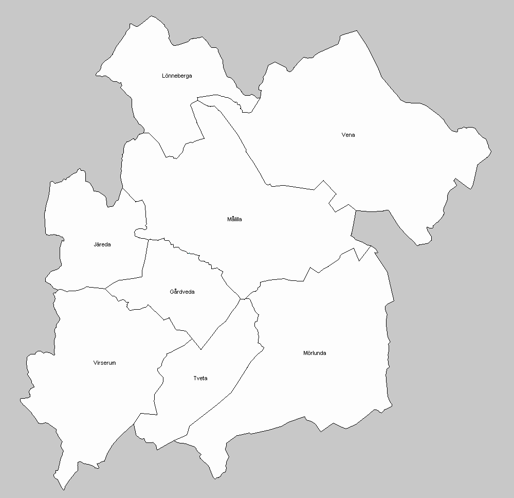 Parishes in Hultsfred municipality